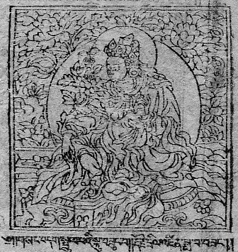 Suchandra, a mythological king of Shambhala, according to a Tibetan blockprint of the Vaidurya dkar po (1685)